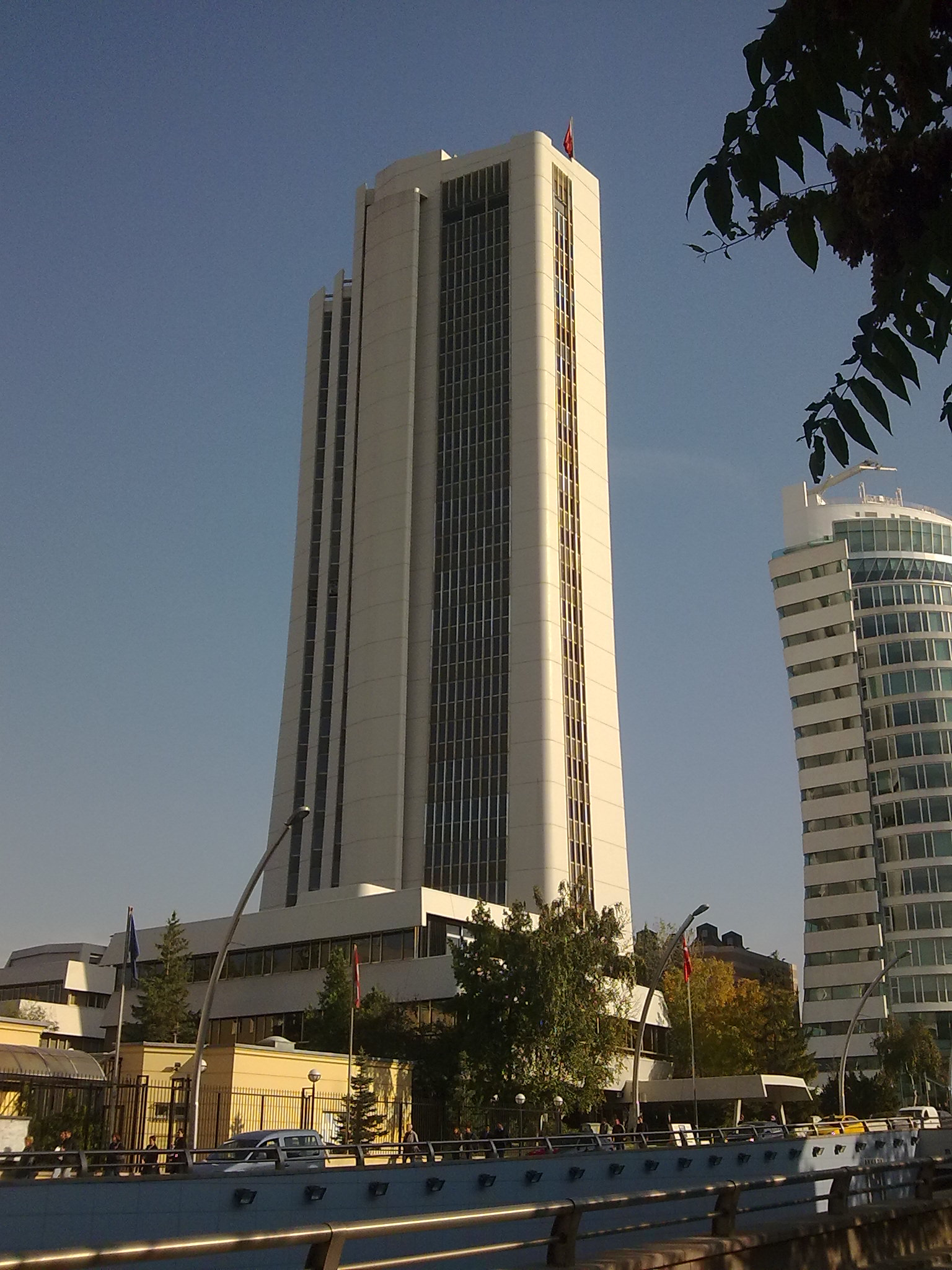 A view of the BDDK building, Atatürk Avenue in AnkaraTürkçe: Ankara'daki Atatürk Bulvarı'ndan BDDK binasının bir görünümü